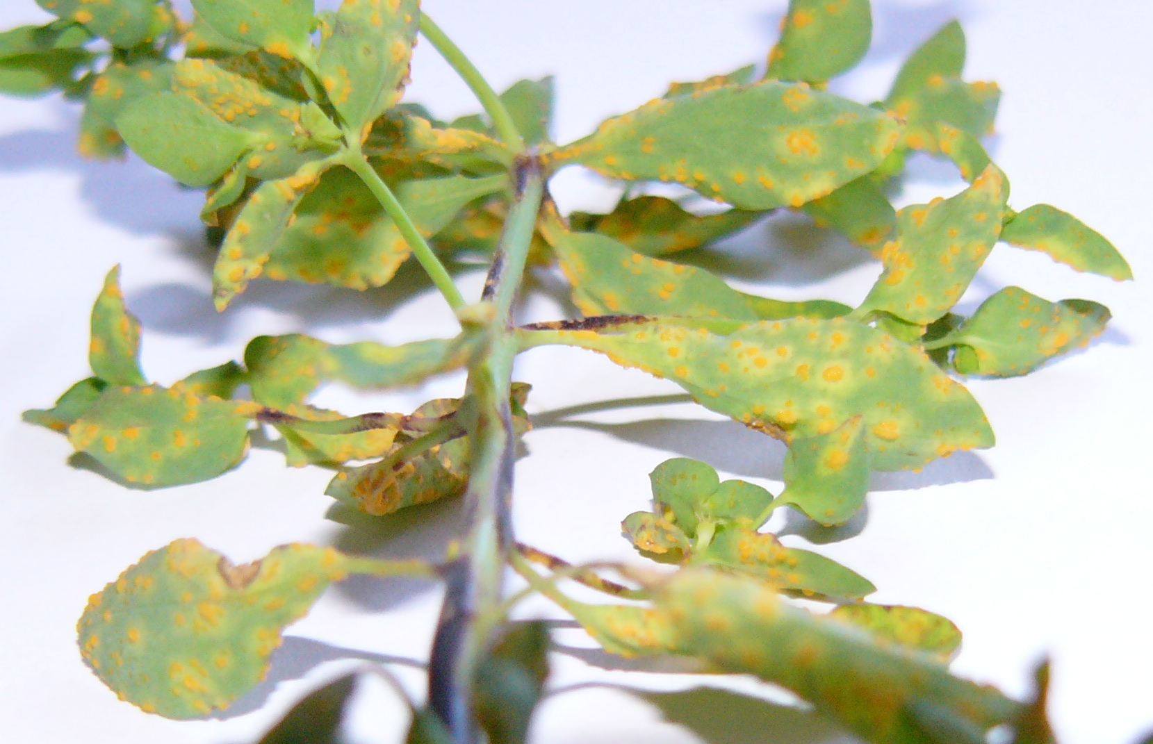 Uromyces pisi-sativi on leaves of Euphorbia cyparissias